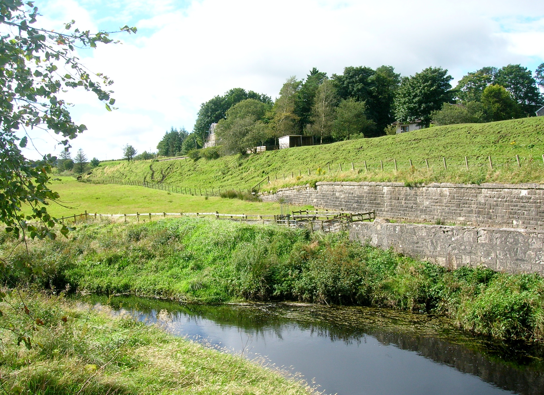 Embankment retaining wall and old Drumclog station site, South Lanarkshire, Scotland.